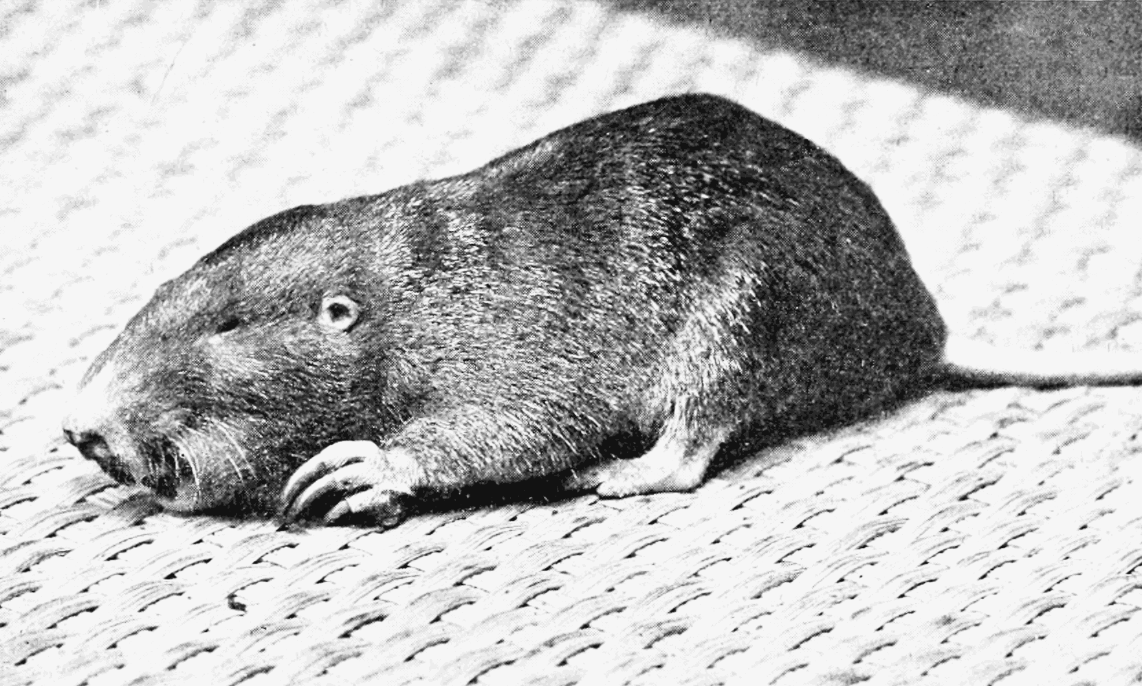 Pocket gopher